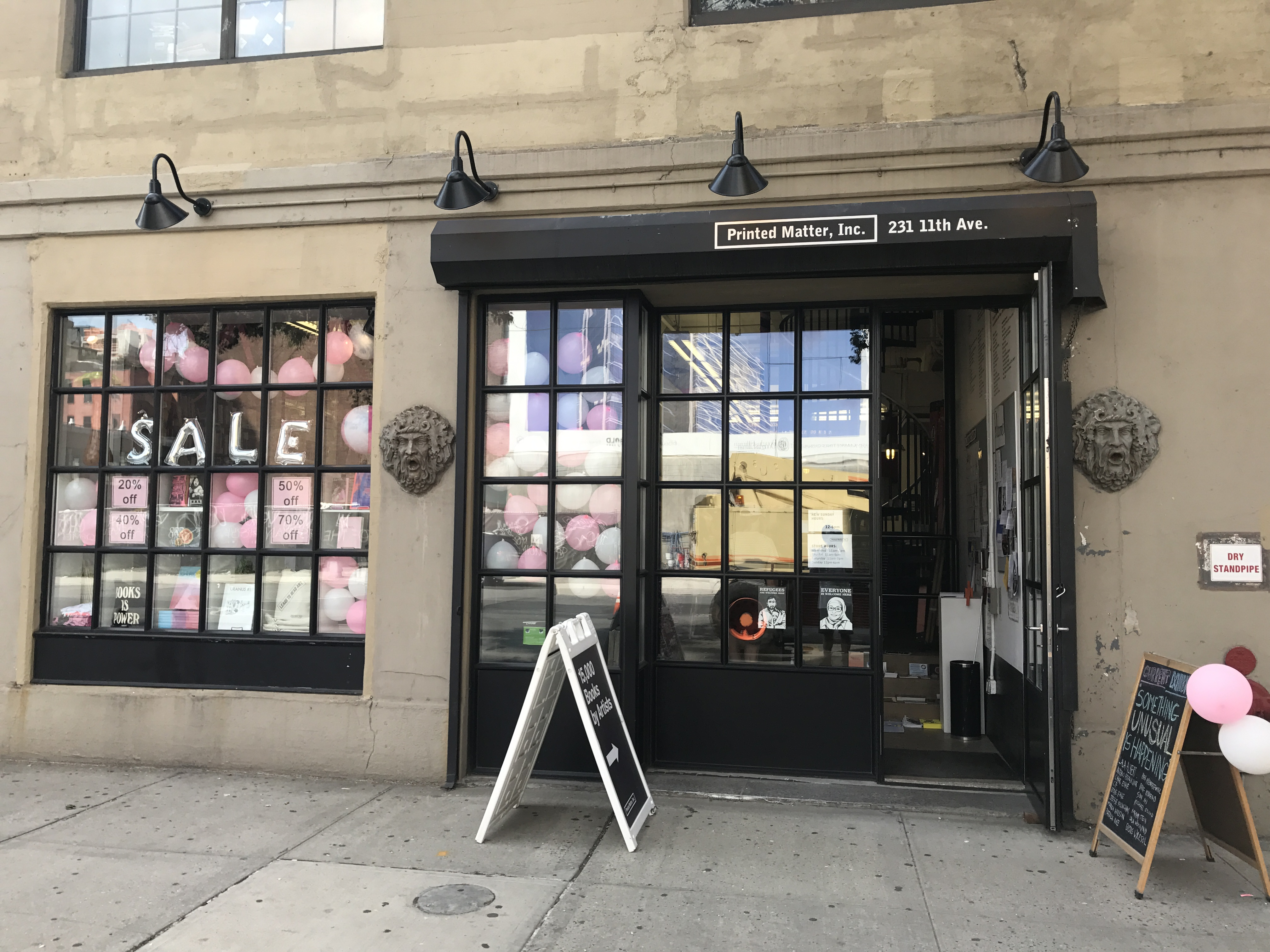 Printed Matter from the outside during a SALE - photo taken July 15th, 2017 at 4:03:54 PM